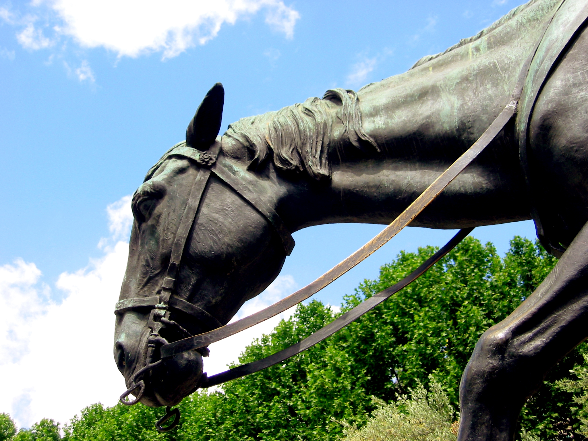 Rocinante (Don Quixote's horse). Detail of the bronze statues of Don Quixote and Sancho Panza made by sculptor Lorenzo Coullaut Valera (1876–1932) between 1925 and 1930. Part of the monument to Cervantes (1925–1930, 1956–1957) in the Plaza de España (square) in Madrid.